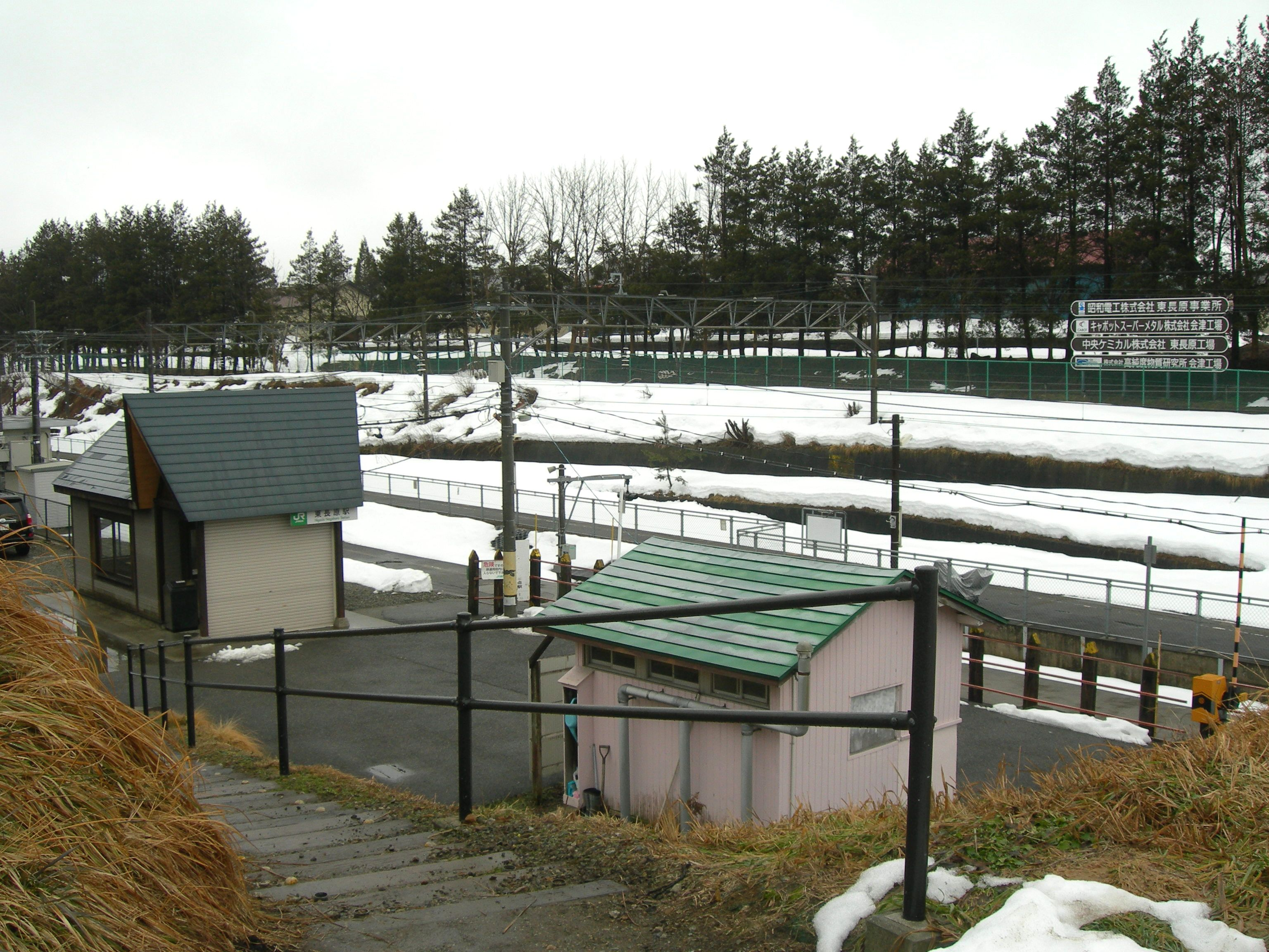 Higashi-Nagahara Station